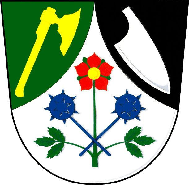 Tučín CoA CZ